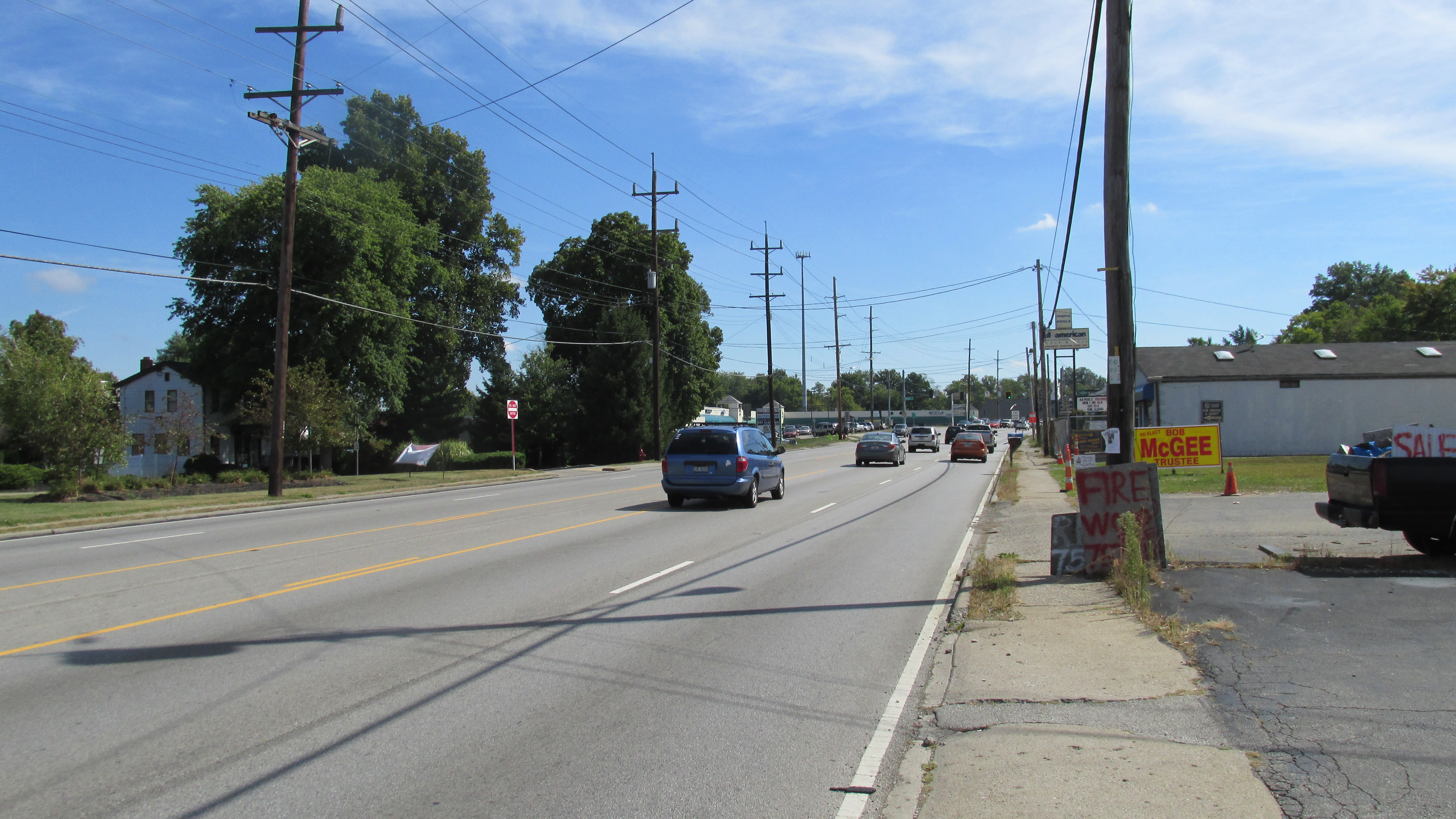 Looking east on Ohio Pike (Ohio Highway 125) in Withamsville.